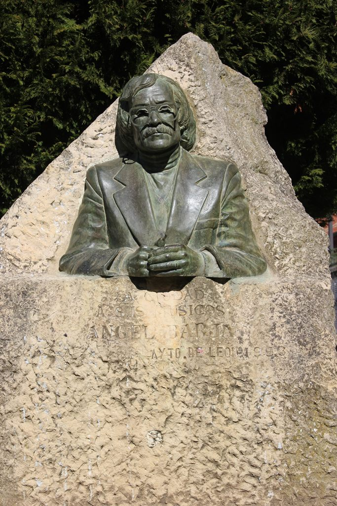 Garden of the Cid. Monument Angel Barja